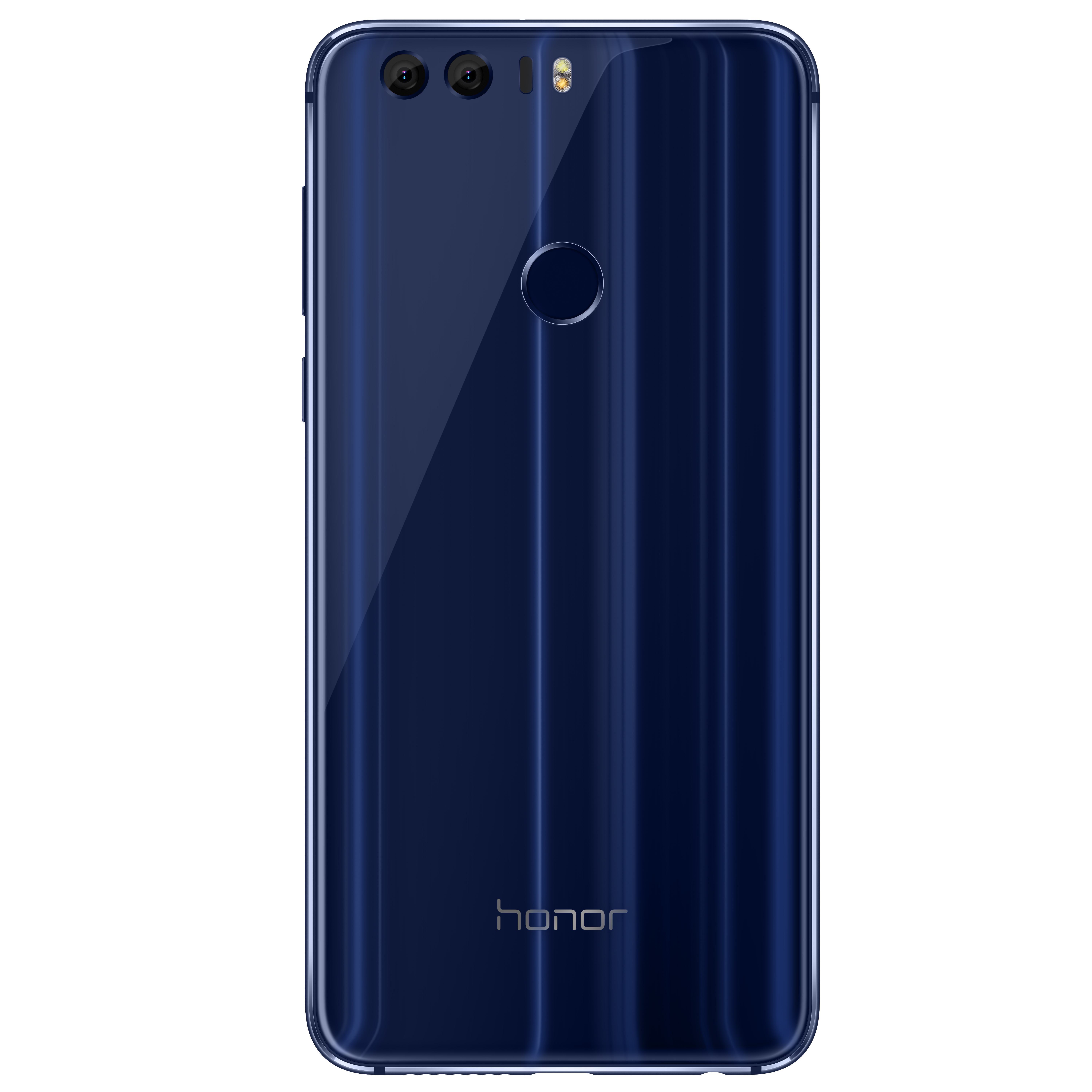 Reverse side of the Honor 8 phone